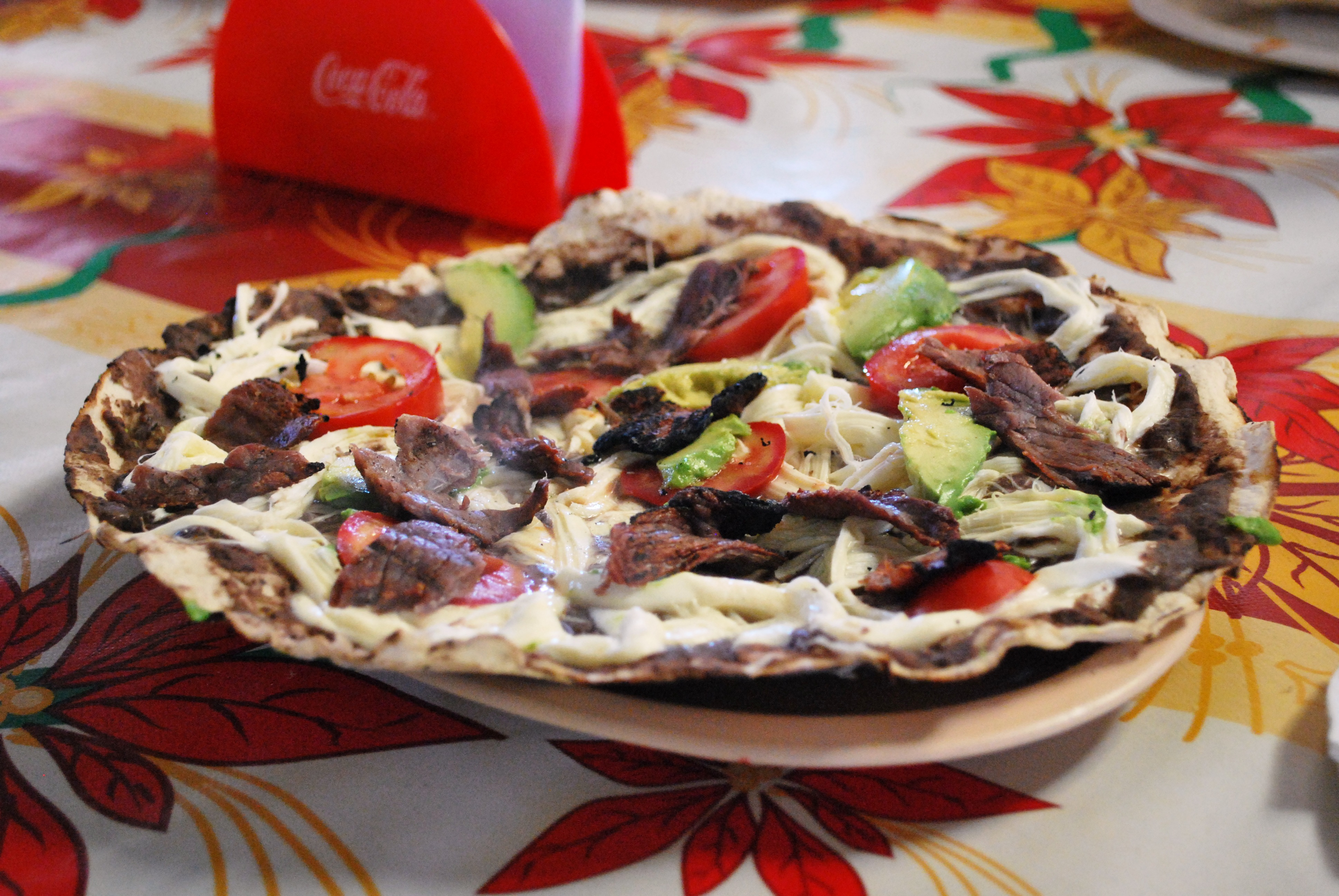 Tlayuda as served at a food stand in Santa Maria del Tule in Oaxaca, Mexico. This one looks more like a pizza. The meat is called tasajo, which is a grilled beef